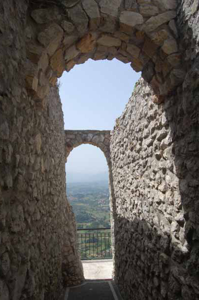 this is a photo of "bucione", a place in Boville Ernicaa